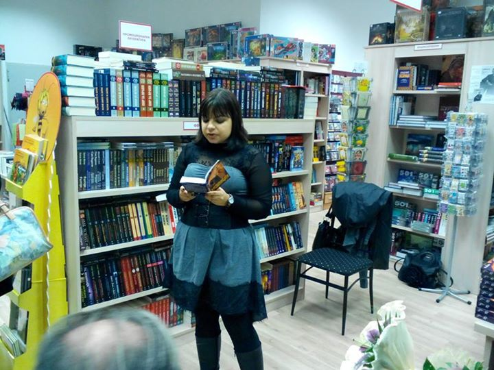 Gery Yo.